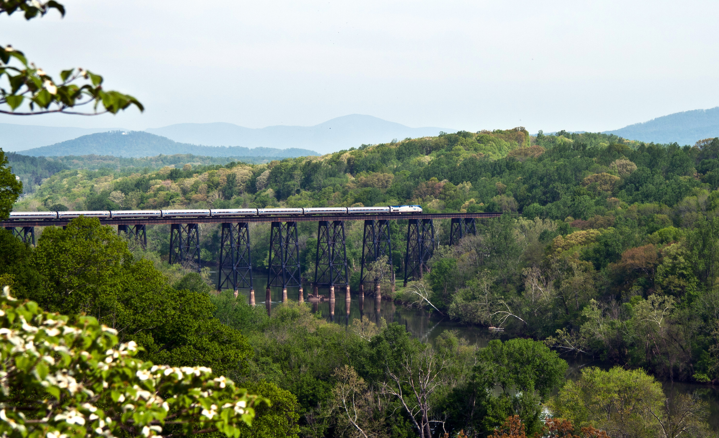 Amtrak Train 156, the Northeast Regional, crosses the James River trestle shortly after departing Lynchburg, VA. The train is headed to Boston.